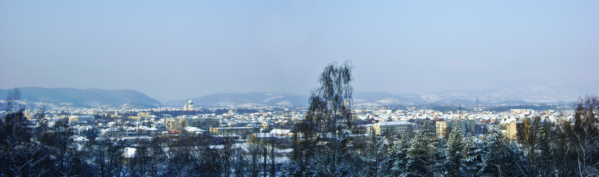 Panorama Irshava 19.12.2009